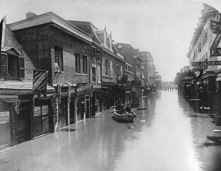 Photograph, Looking west on St. Joseph Street (Notre Dame), Montreal, QC, 1886, George Charles Arless, Silver salts on paper mounted on card - Albumen process - 19 x 23 cm